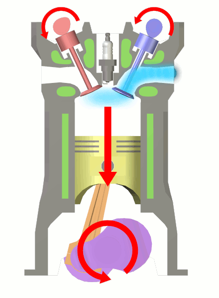 Illustration of the Four-stroke cycle